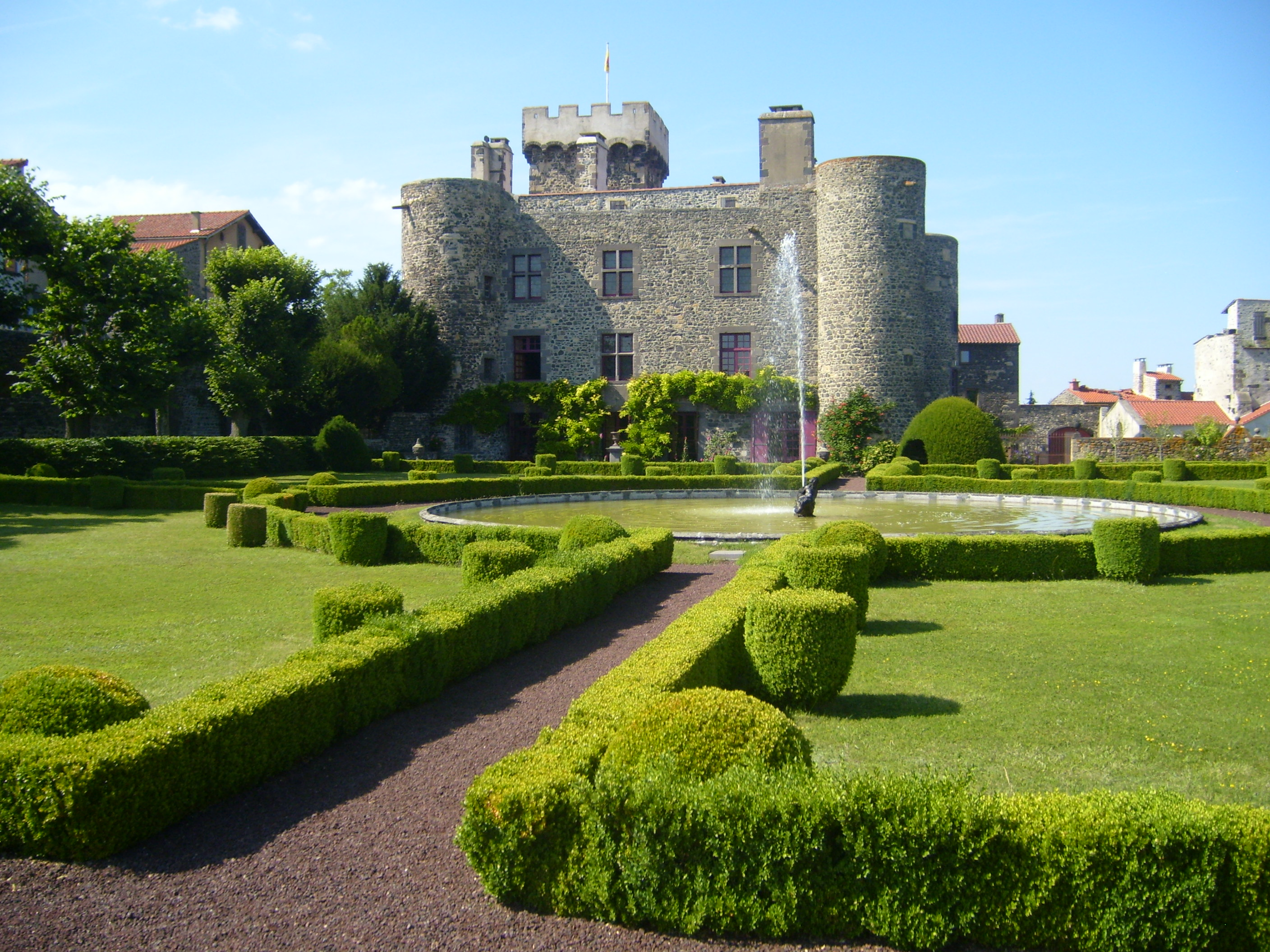 Exterior and upper terrace of the Chateau d'Opme, Romagnat, in the Auvergne